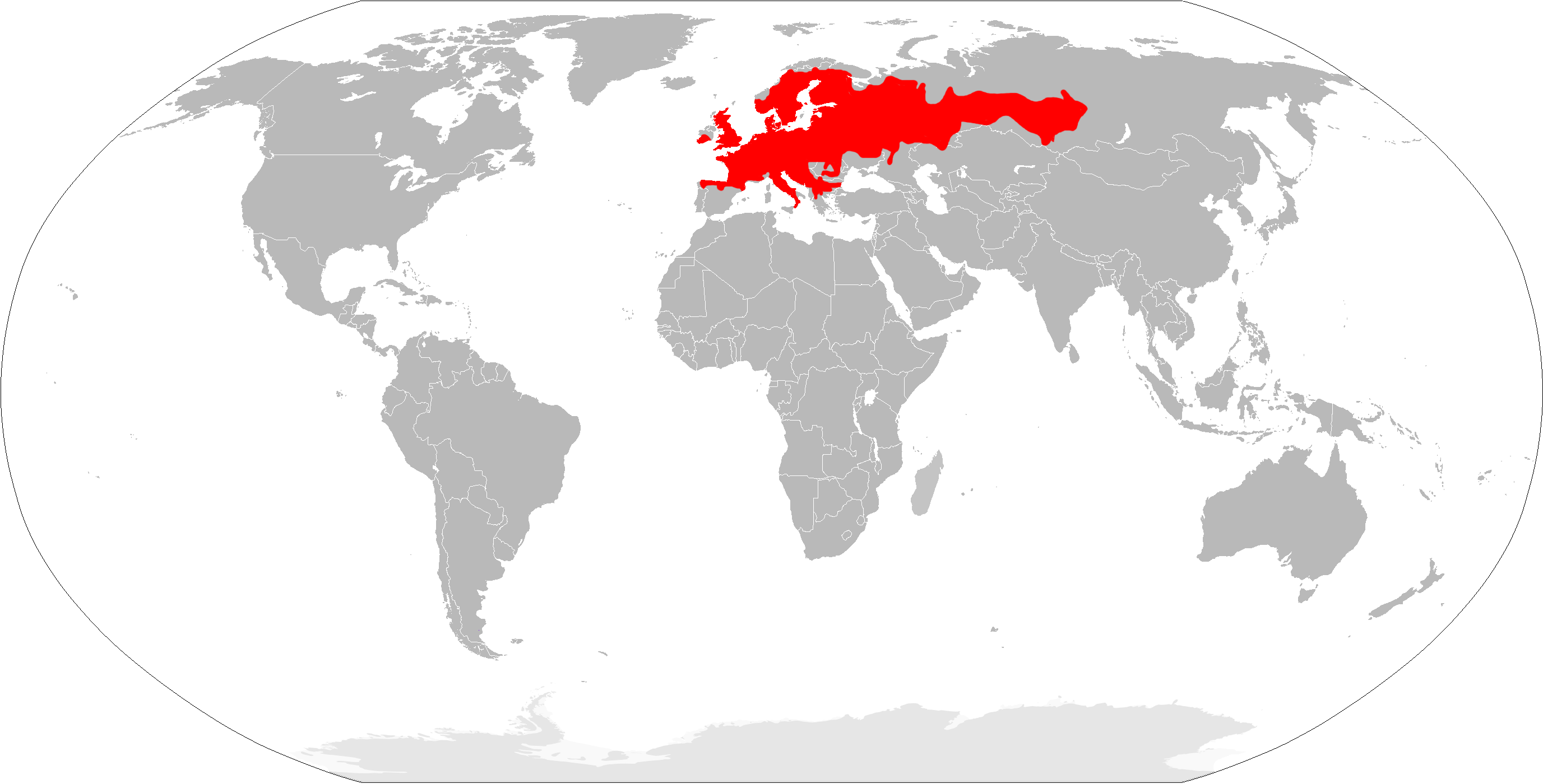 Range map of bank vole (Myodes glareolus).